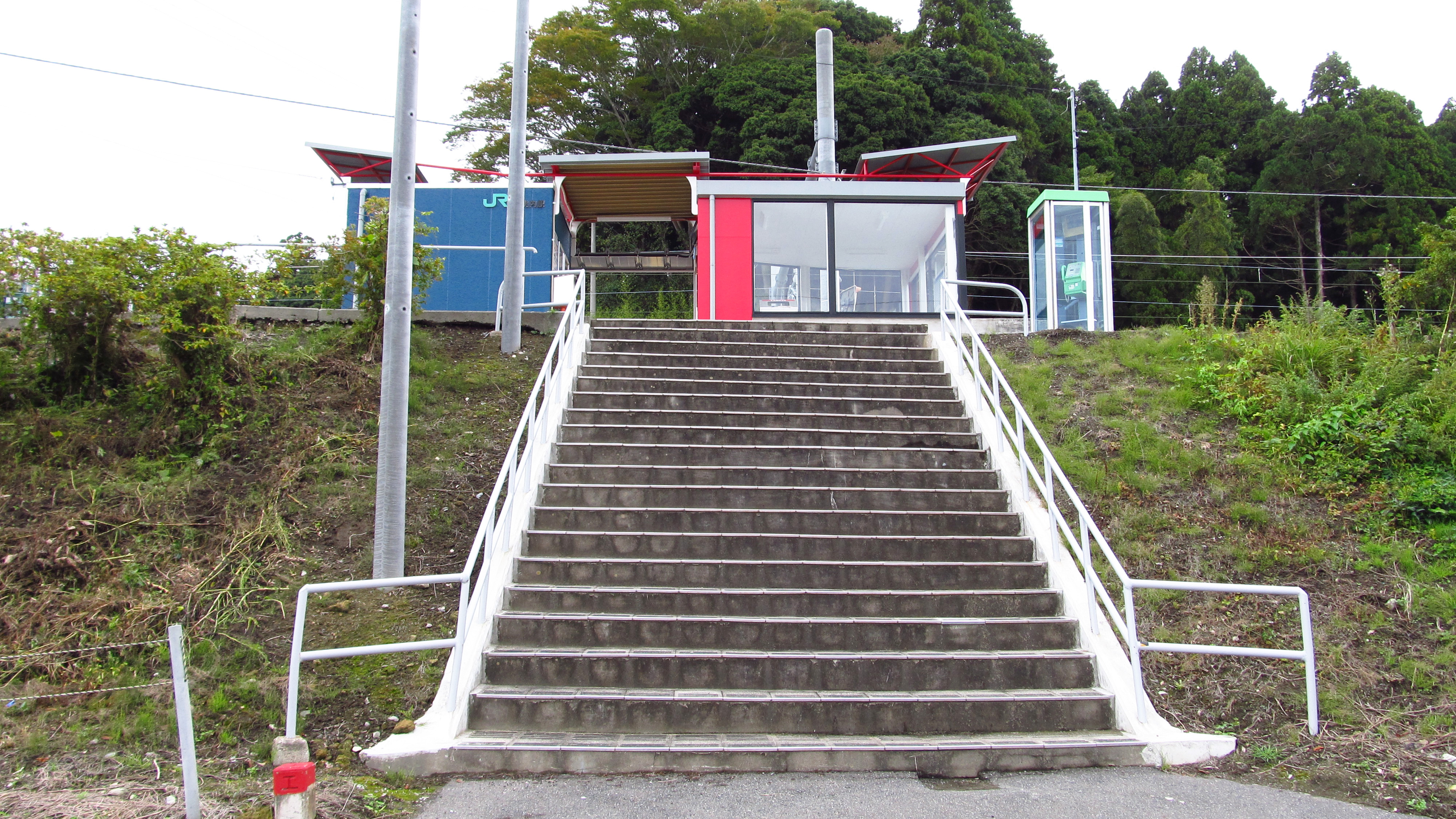 The entrance to Momouchi Station on the Jōban Line in Fukushima Prefecture, Japan